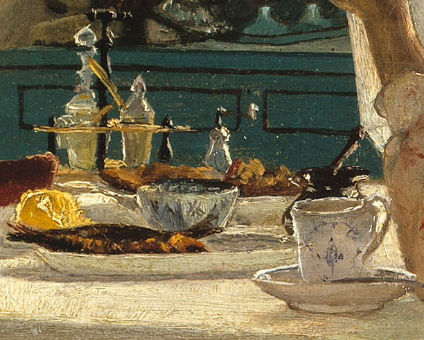 A t Breakfast, detail from File:Laurits Andersen Ring - Ved frokostbordet og morgenaviserne.jpg